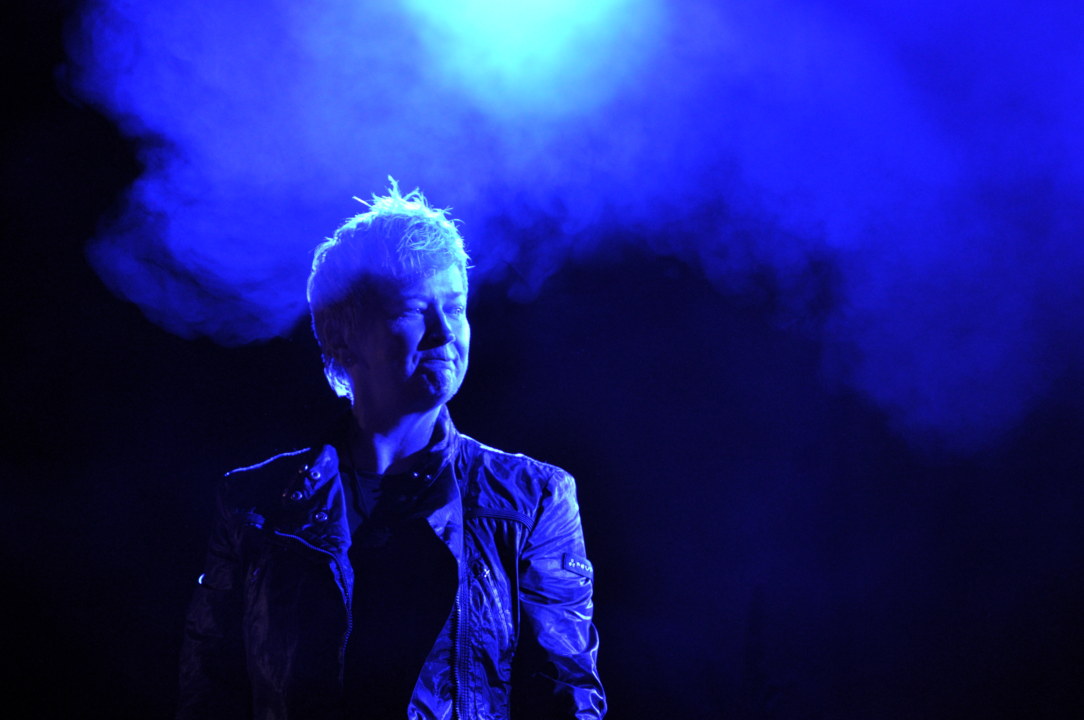 Anne Clark at the Amphi Festival 2013, Cologne, Germany